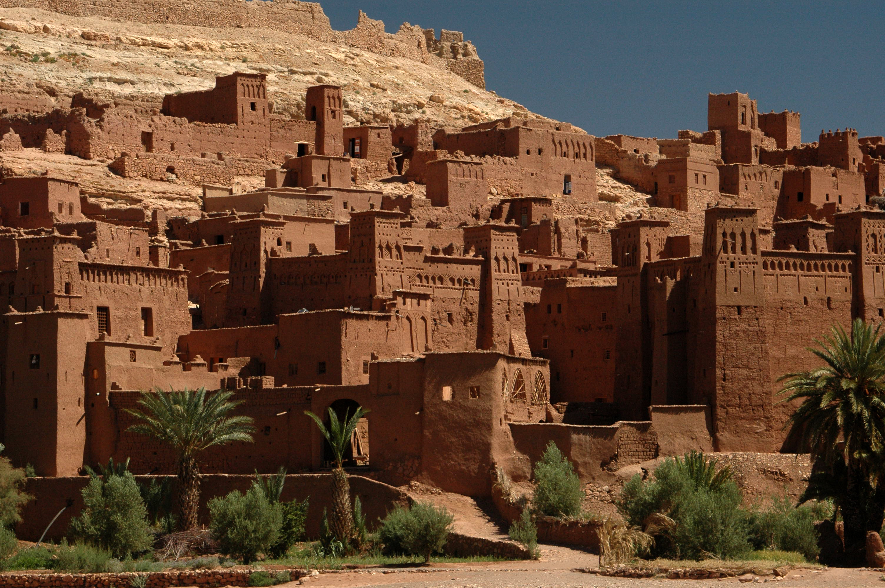 In a remote village in the Ouarzazate region